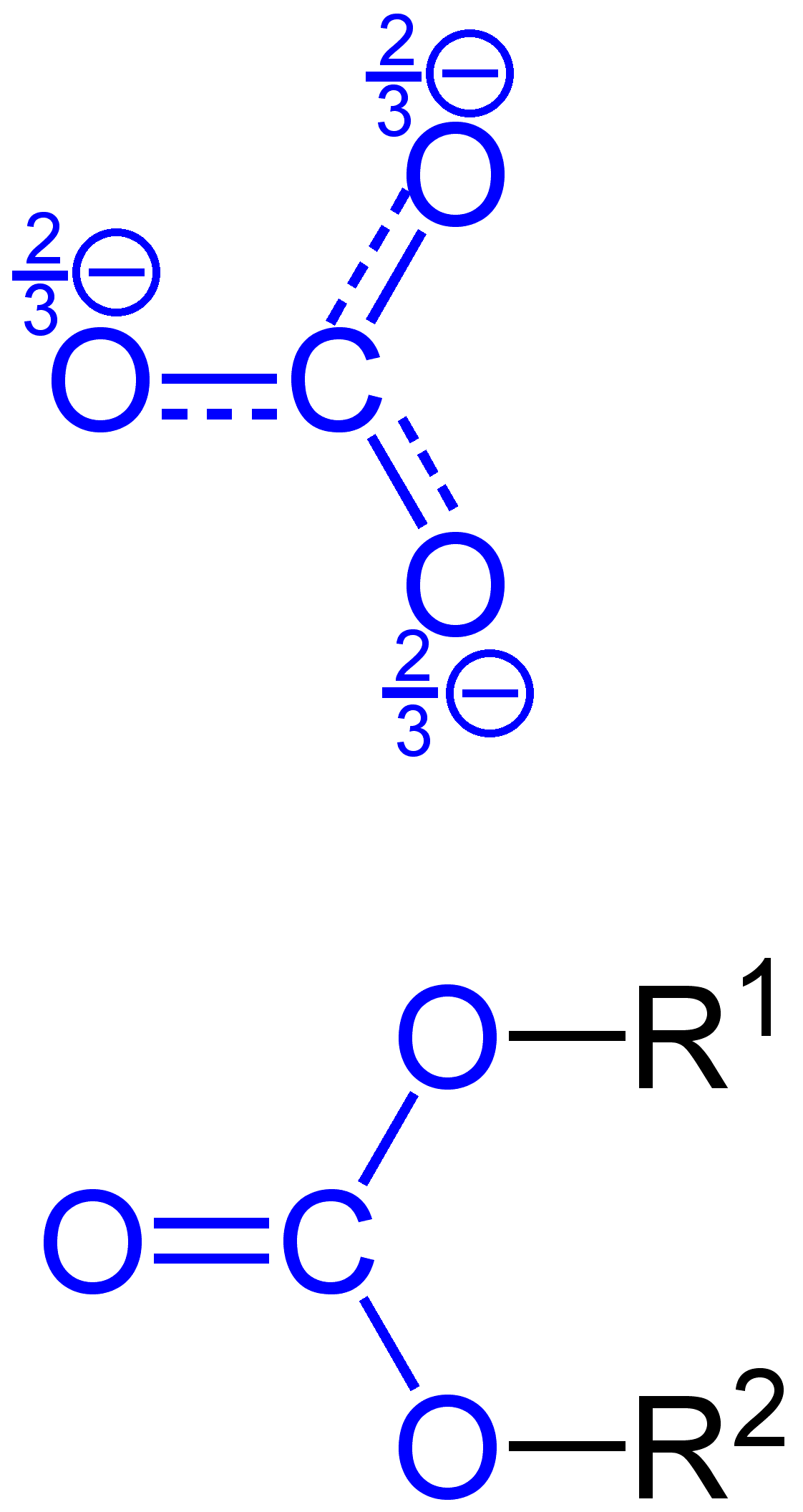 Carbonate_group_structural_formulae